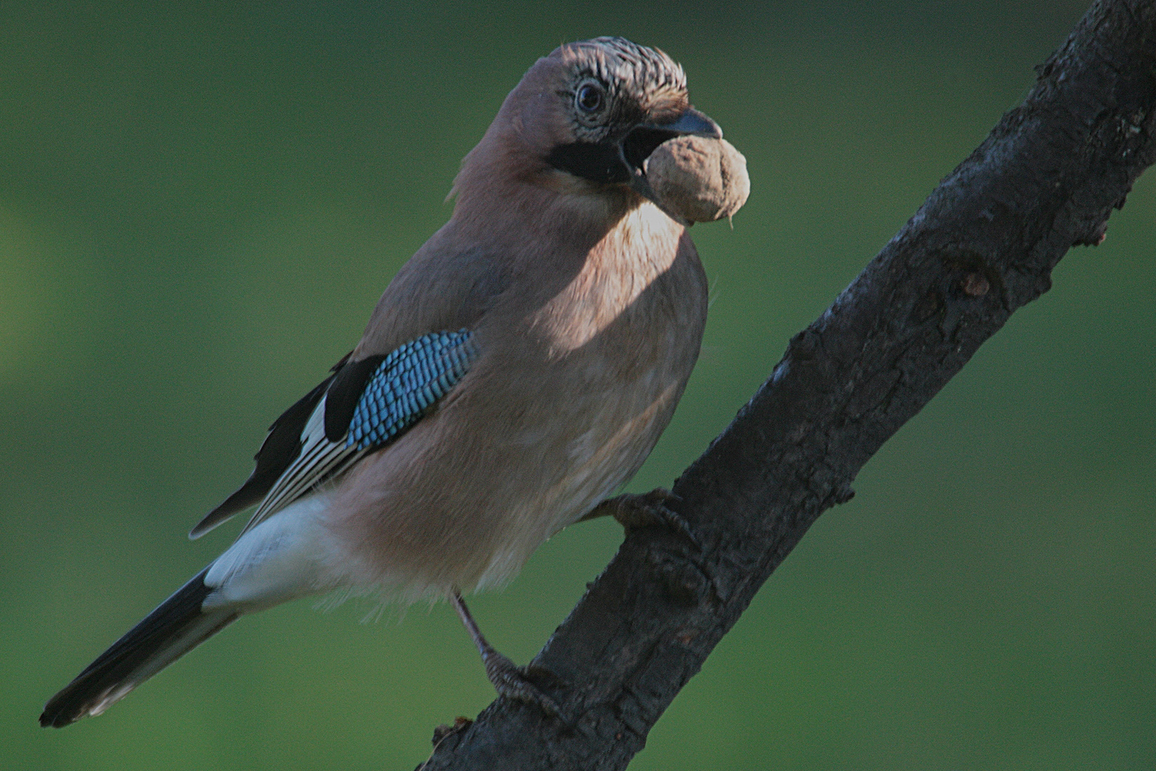 The Eurasian Jay, Lodz(Poland)